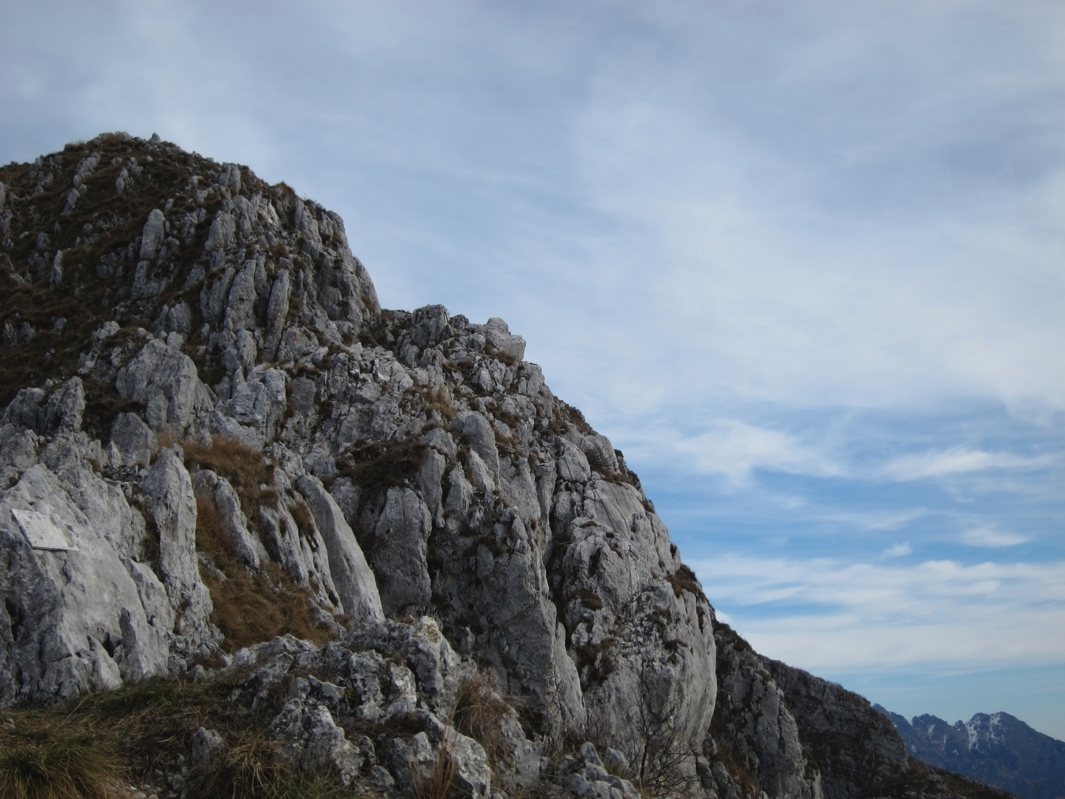 Arete and summit of mount Corno Occidentale di Canzo, 1373 masl. Picture taken in the municipality of Canzo, province of Como, region of Lombardy in Italy on the 2nd of March 2019. 2019-03-02